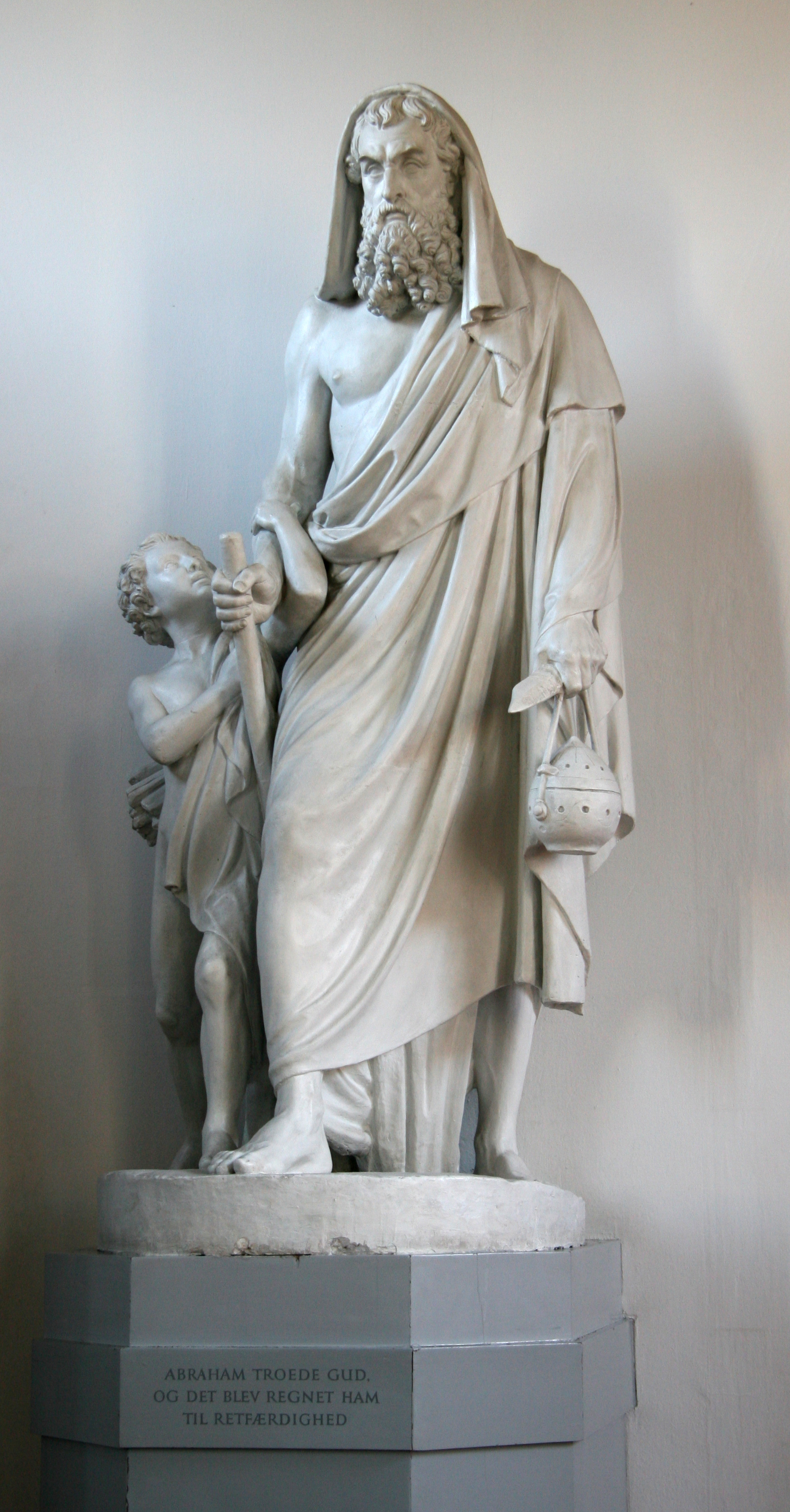 Emmauskirken, Frederiksberg, Denmark. Private church belonging to Diakonissestiftelsen (Danish Deaconess Community), Statue by the entrance. Abraham.